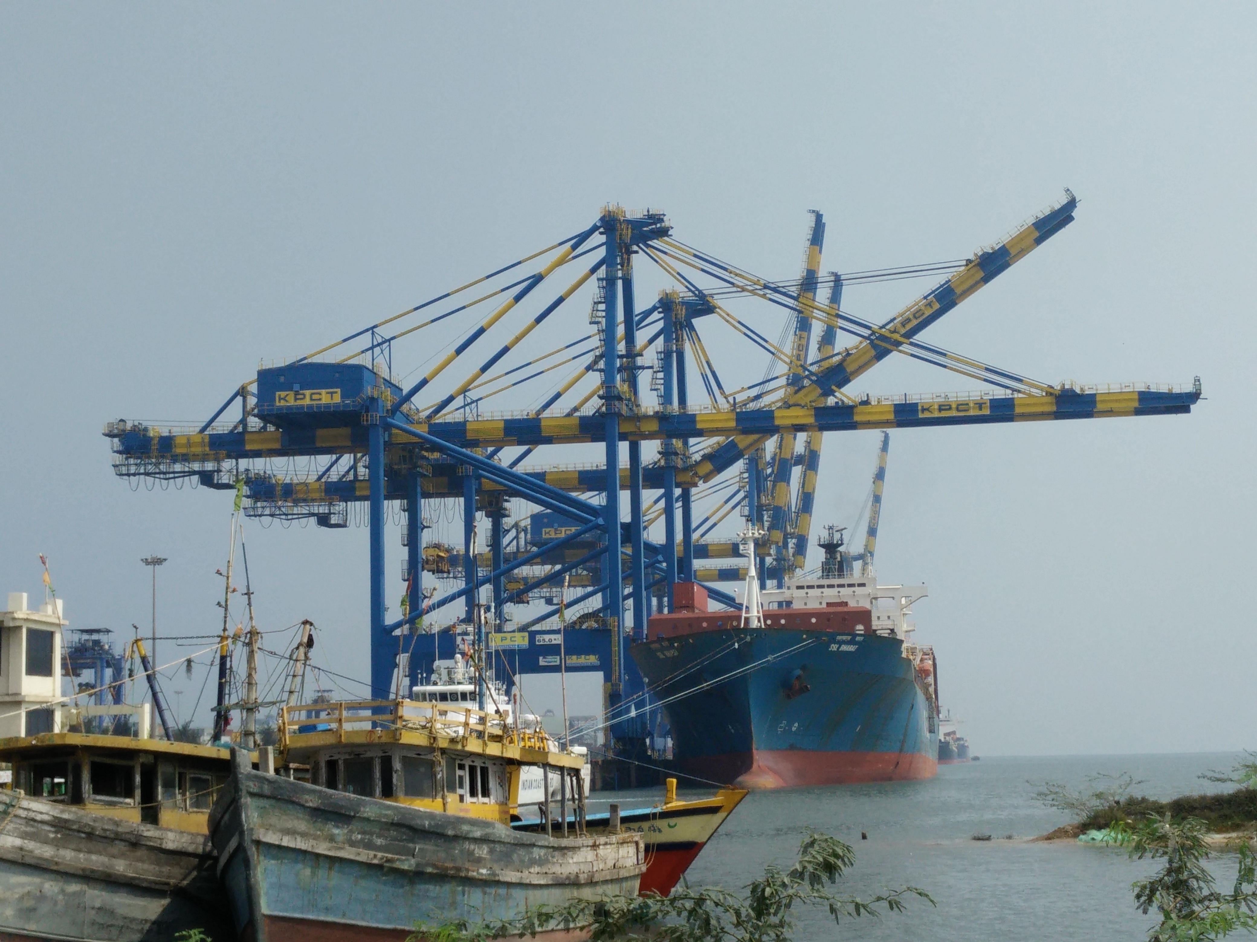 Krishnapatnam port cranes unloadng a ship